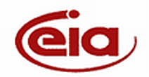 United States Energy Information Administration logo.